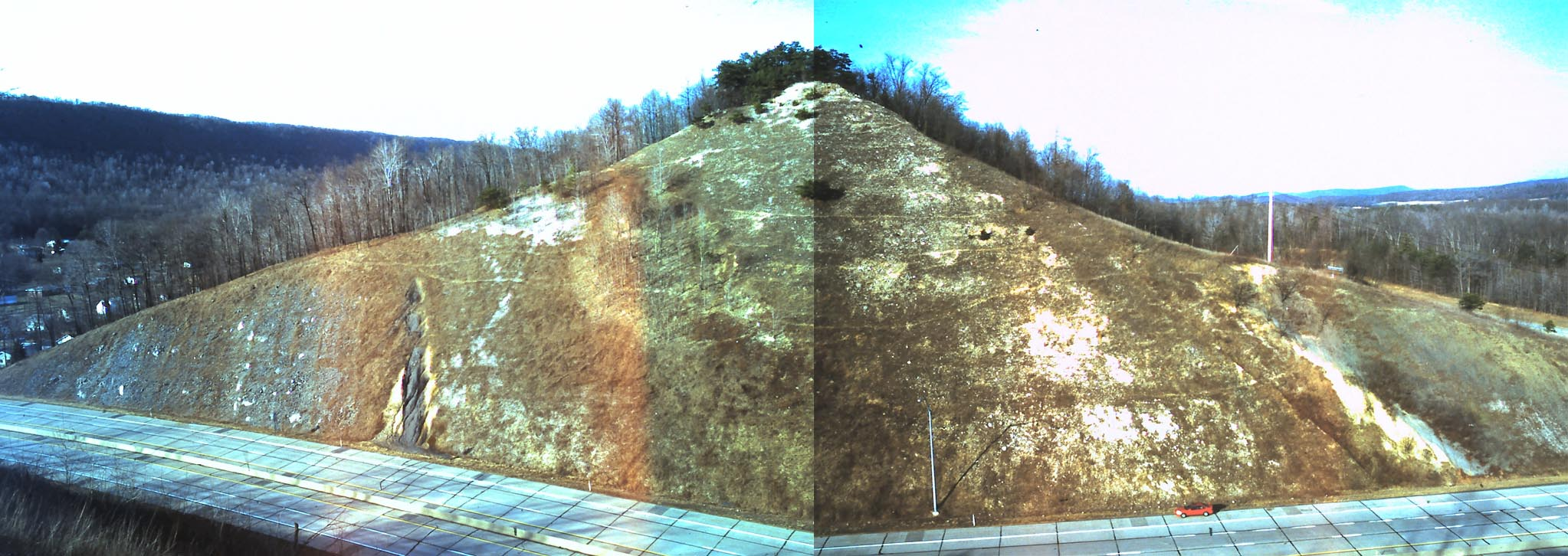 Photomosaic facing north of roadcut along U.S. Route 30 (Everett bypass) through Warrior Ridge, Bedford County, Pennsylvania, showing the lower Devonian sequence from the Keyser Formation and Corriganville-New Creek Limestones at left, to the Mandata Shale, to the Ridgeley Sandstone to the Needmore Shale at right, and Tussey Mountain in background at left. View from same outcrop